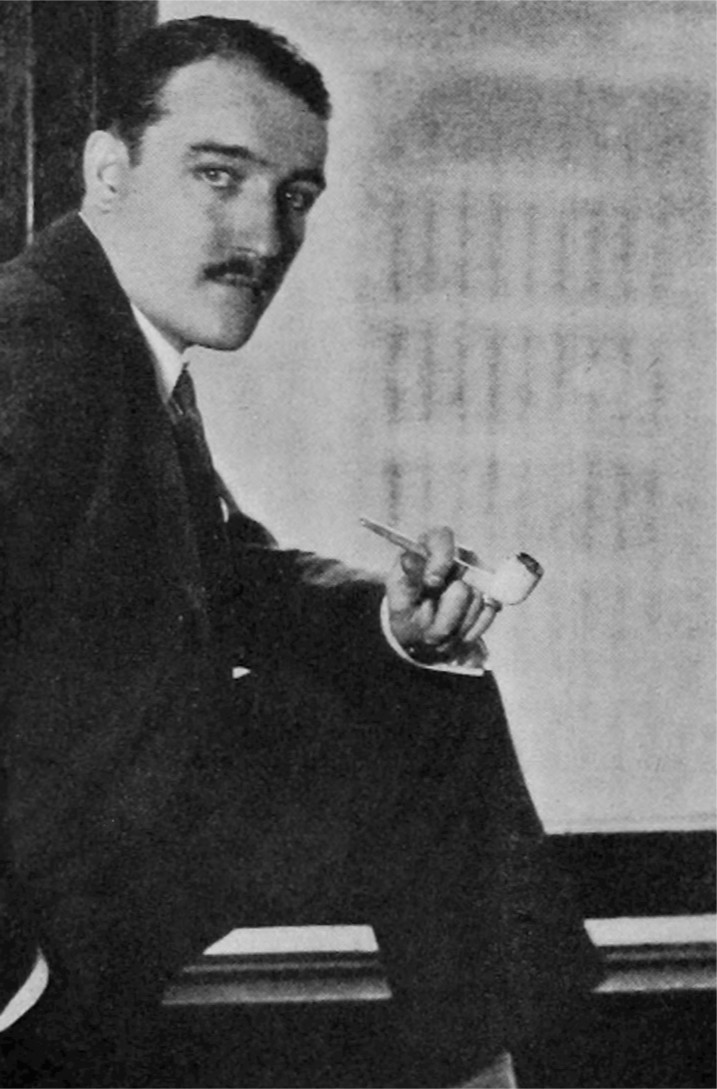 Photo of Henri de La Falaise, former husband of Gloria Swanson and Constance Bennett. A search for renewal was done in publications for the years 1954 and 1955. There were no listings for Photoplay; there's no evidence of renewal for the magazine.